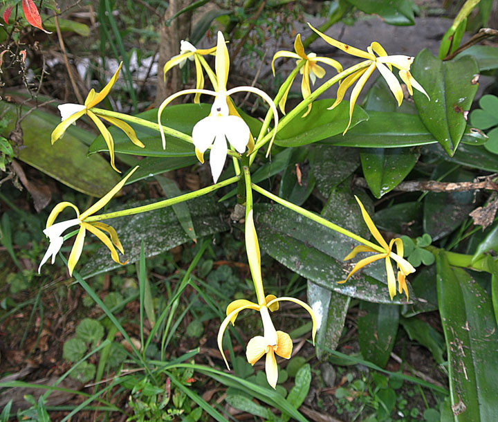 Native to the highlands from western Venezuela to Peru. Photo from the El Dorado Reserve, northeastern Colombia. In context at